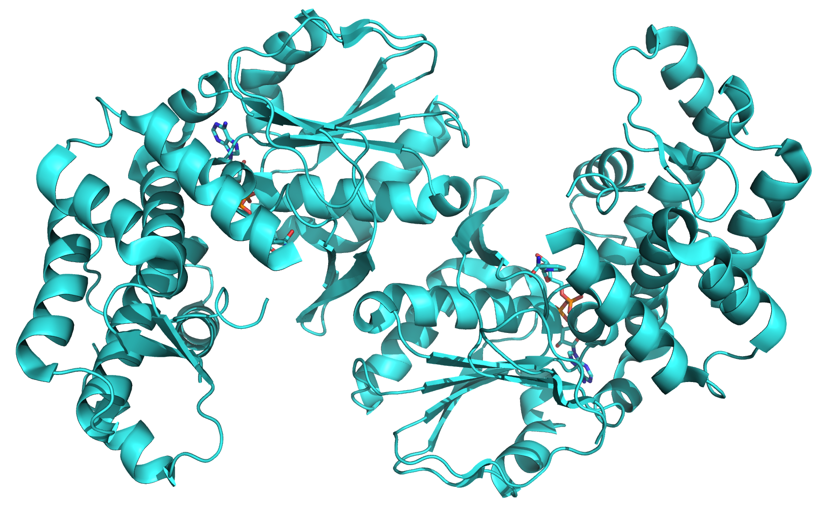 Helicobacter pylori 3-dehydroquinate synthase PDB Code: 3CLH Resolution: 2.40 Å